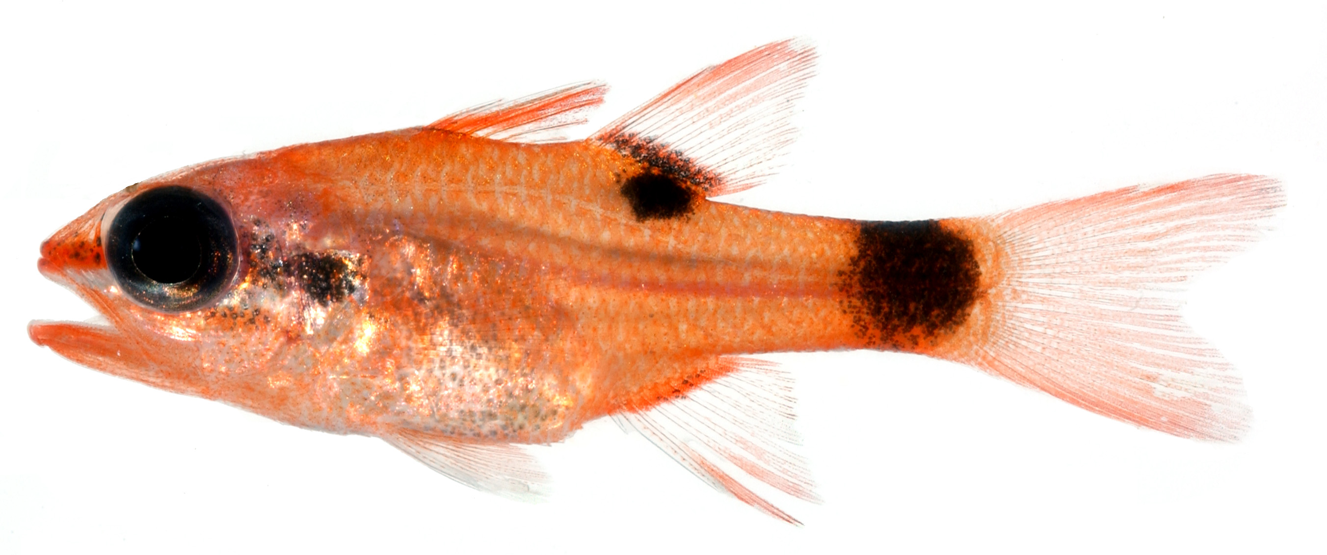 Apogon maculatus, Juvenile (Flamefish)